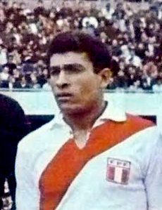 Peru national football team moments prior to a practice match against the Mexico national football team in 1968. Friendly match ahead of their participation in the 1970 FIFA World Cup, featuring players from the team that qualified them to the aforementioned tournament.